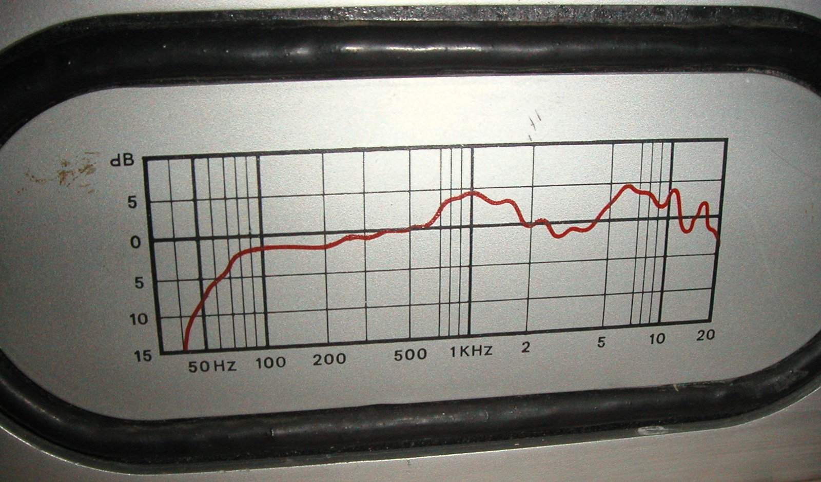 Passive radiator loudspeaker enclosure. Leningrad plant "Ferropribor" - "Electronics 25AC-328"